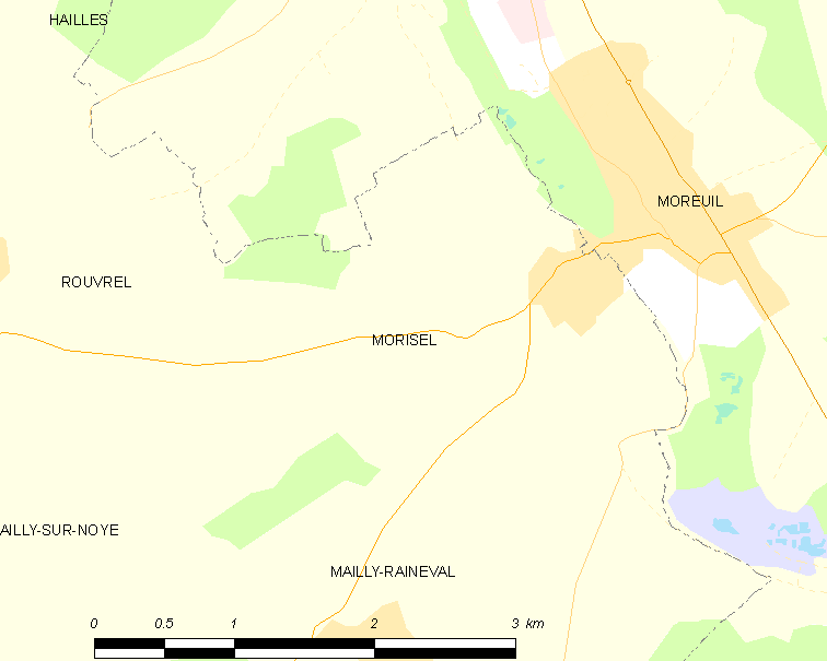 Map of French municipality Morisel